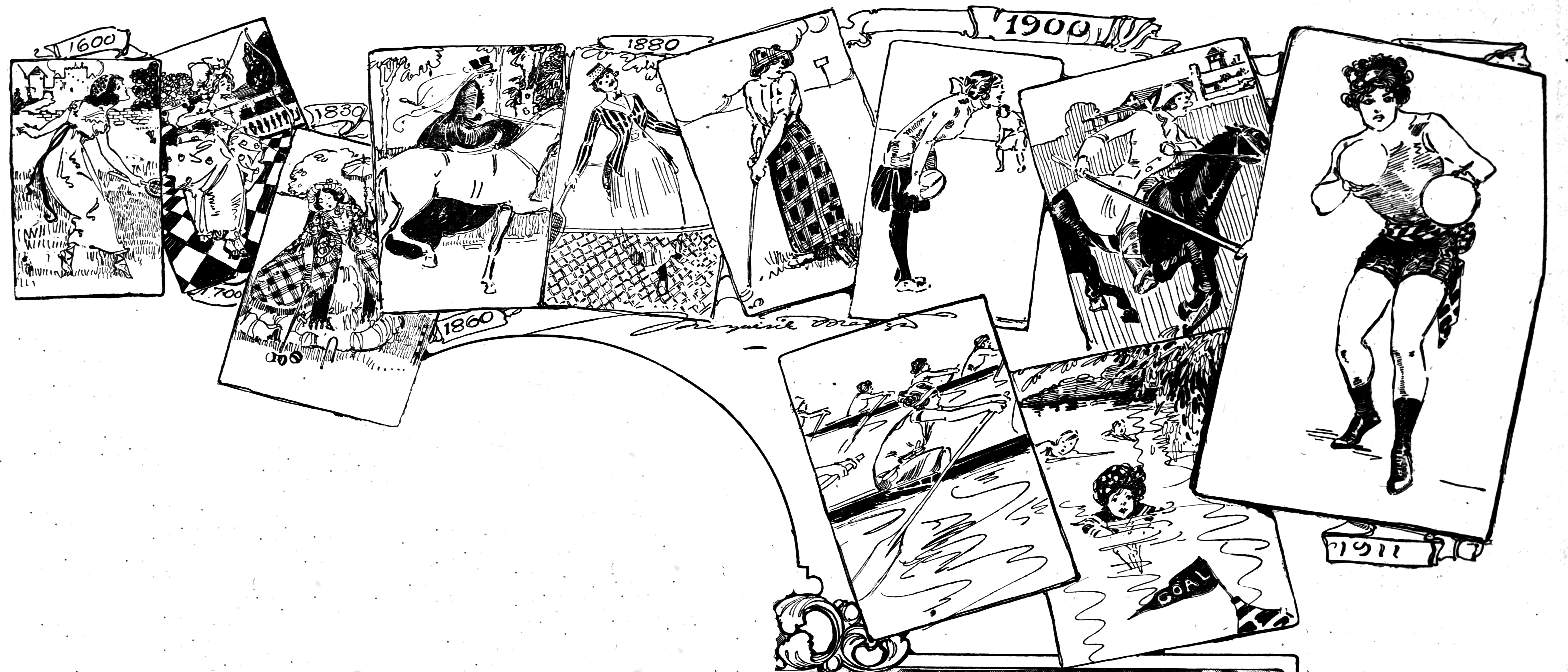 1911 drawing by Marguerite Martyn of a Timeline of women's sports in the United States from 1600 to 1911. Clockwise, they are: Lawn tennis, archery, croquet, horseback riding, tennis, golf, a ball game, polo, boxing, competitive rowing, and competitive swimming.